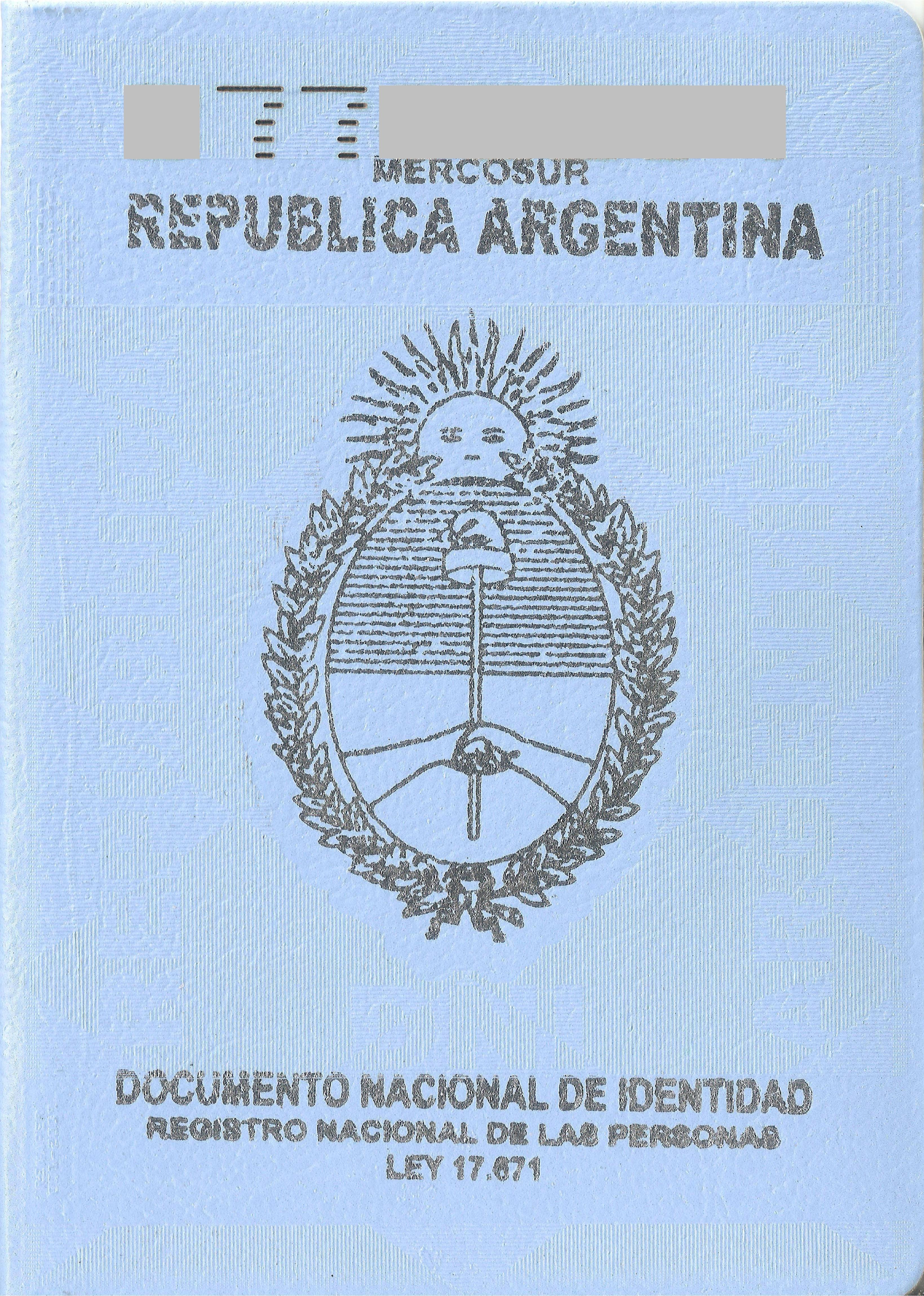 Portada DNI